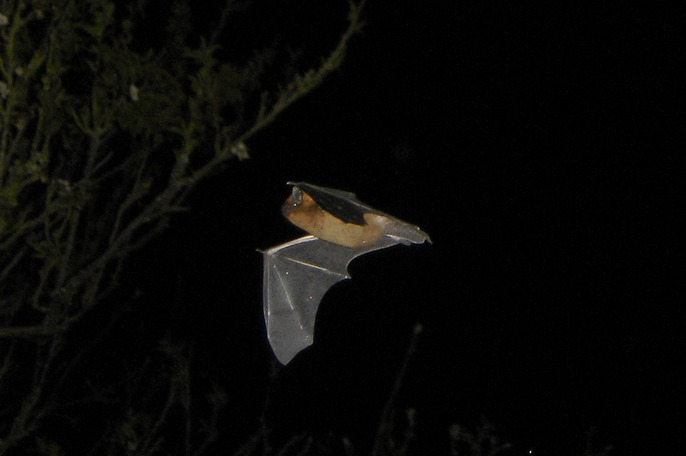 Pipistrellus pipistrellus in flight. Picture taken at dusk with a digital camera (Sony DSCP-90). Location: Brittany (France).